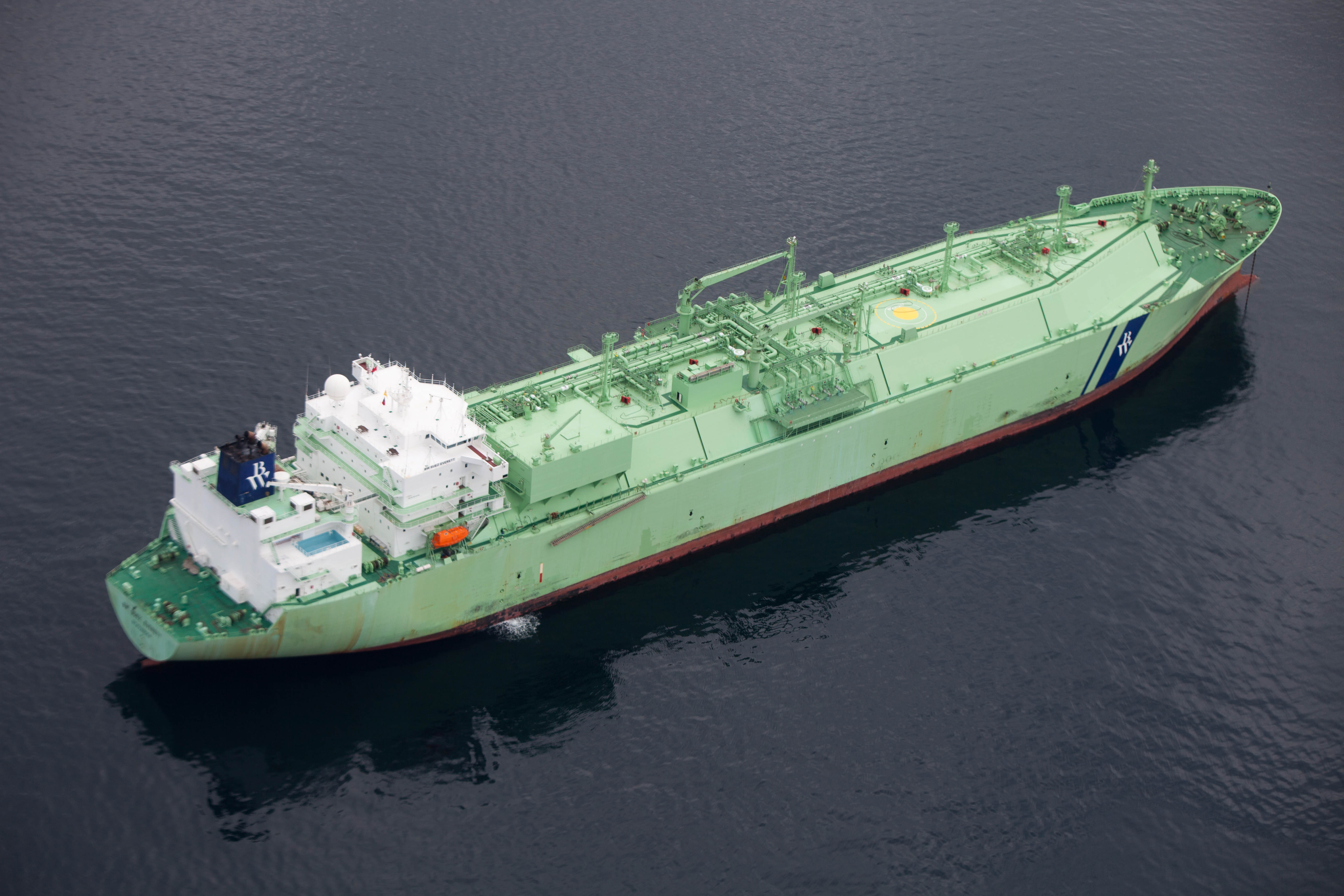 Ship in Norway - BW Suez Everett